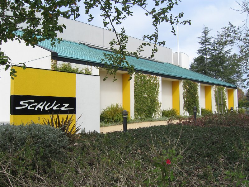 The Charles M. Schulz Museum and Research Center, Santa Rosa, California, USA (facing apx. NW from W. Steele Lane) Self-taken 13 March 2006 with Canon PowerShot SD500 Digital ELPH and compressed with Paint Shop Pro